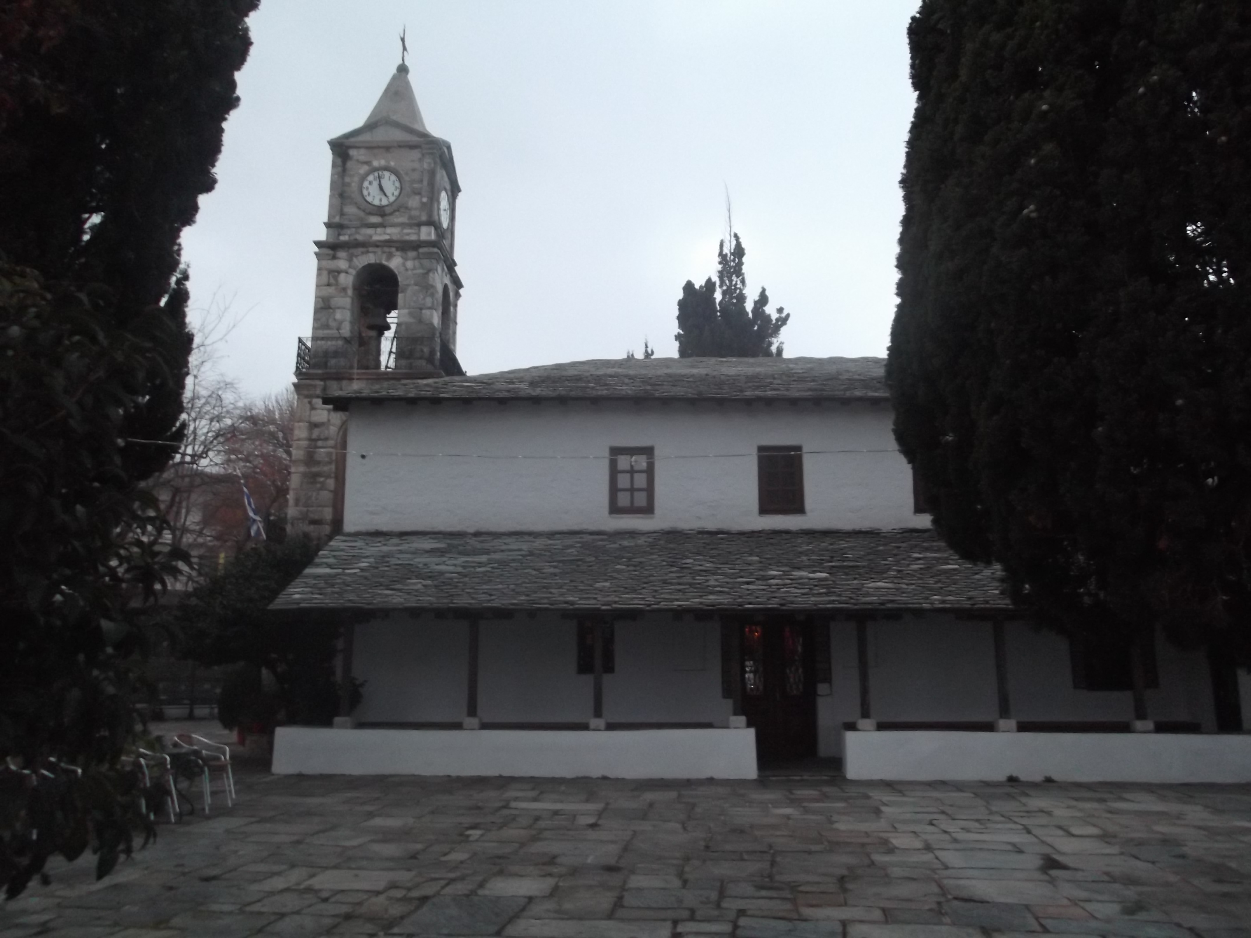 The church of St. Kyriaki (Zagora, Pelion, Greece).